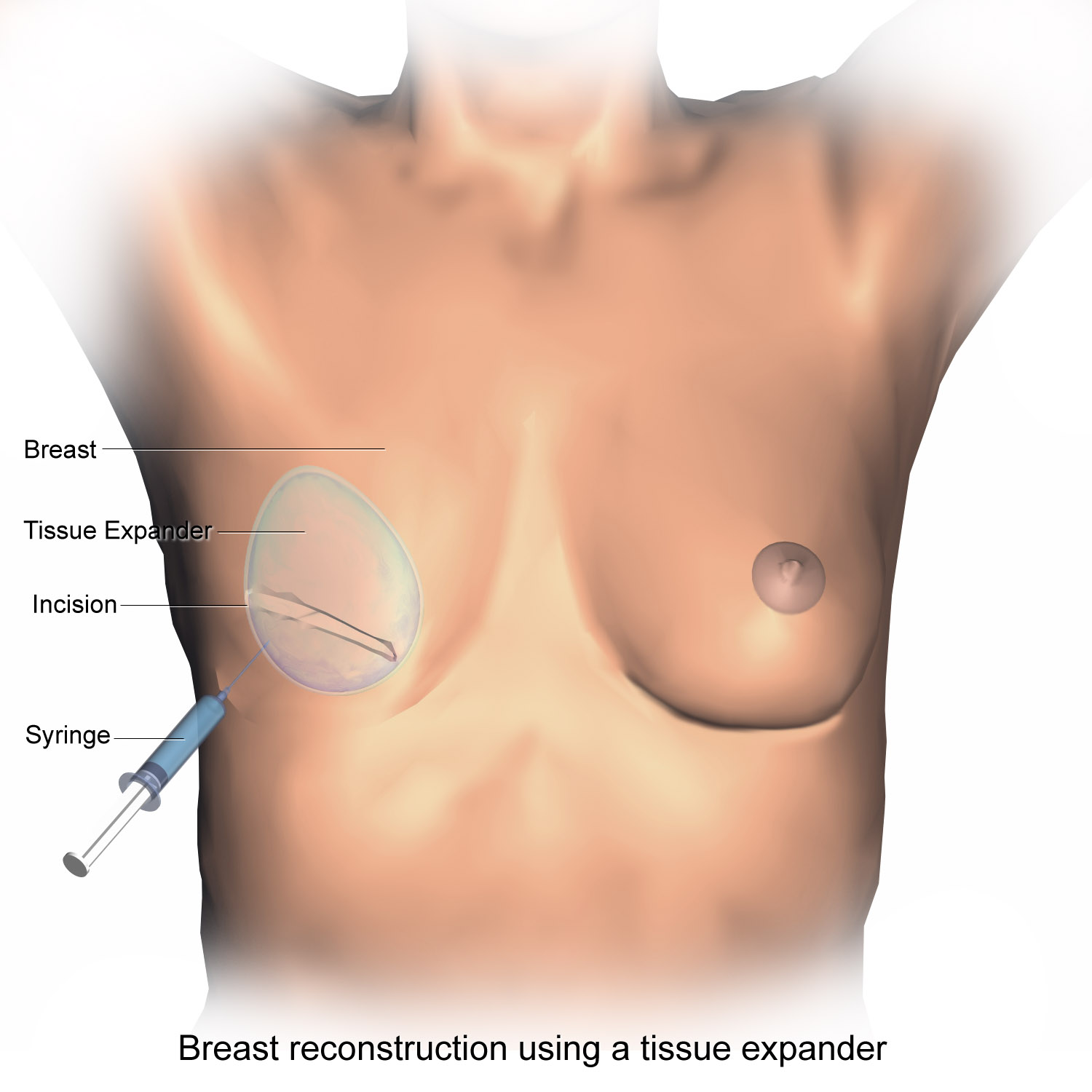 Breast Reconstruction - Expander. See a related animation of this medical topic.